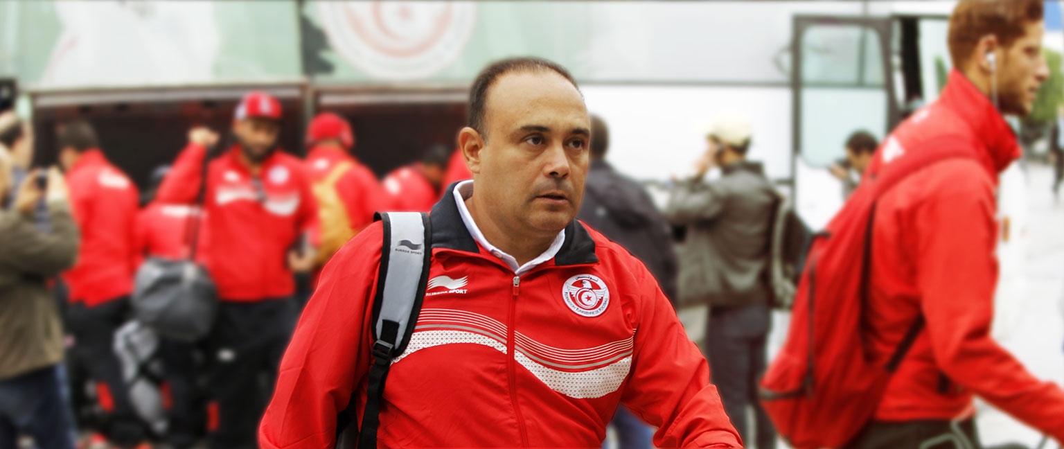 الـــمدرب حــمـادي الــدو من مــواليــد 2 جــــويلـيــــة 1969 بمــدينة صــفاقـــس (عاصمة الجنوب التونسي ) و من عائلة رياضية بإعتباره نجل المسؤول السابق للنادي الرياضي الصفاقسي علـــى مـــدى 50 ســــنة المـــرحـوم عــــبد القــــادر الــدو